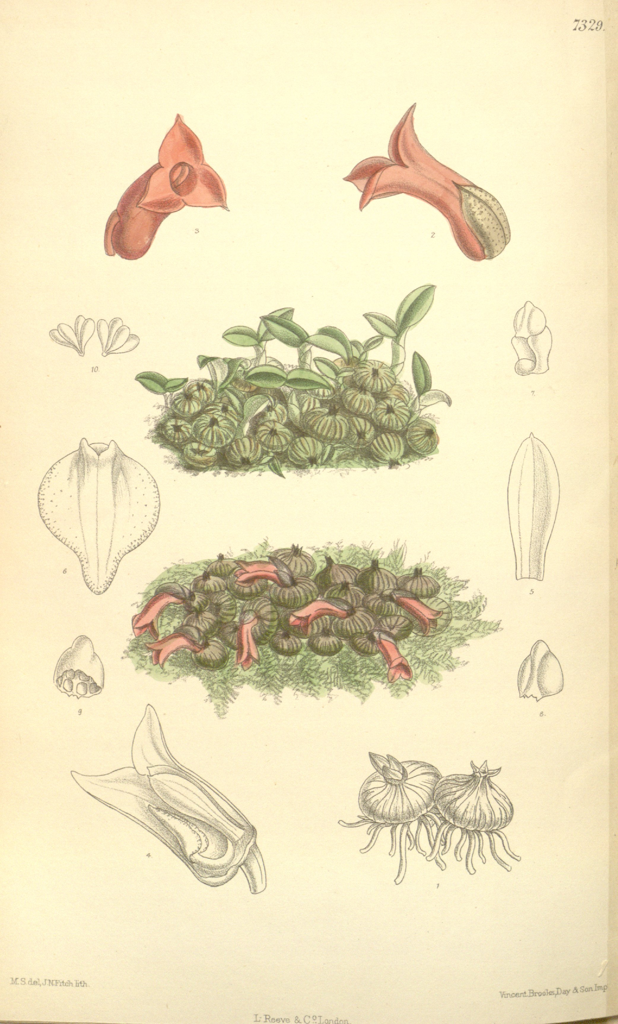 Illustration of Porpax meirax (as syn. Eria meirax)